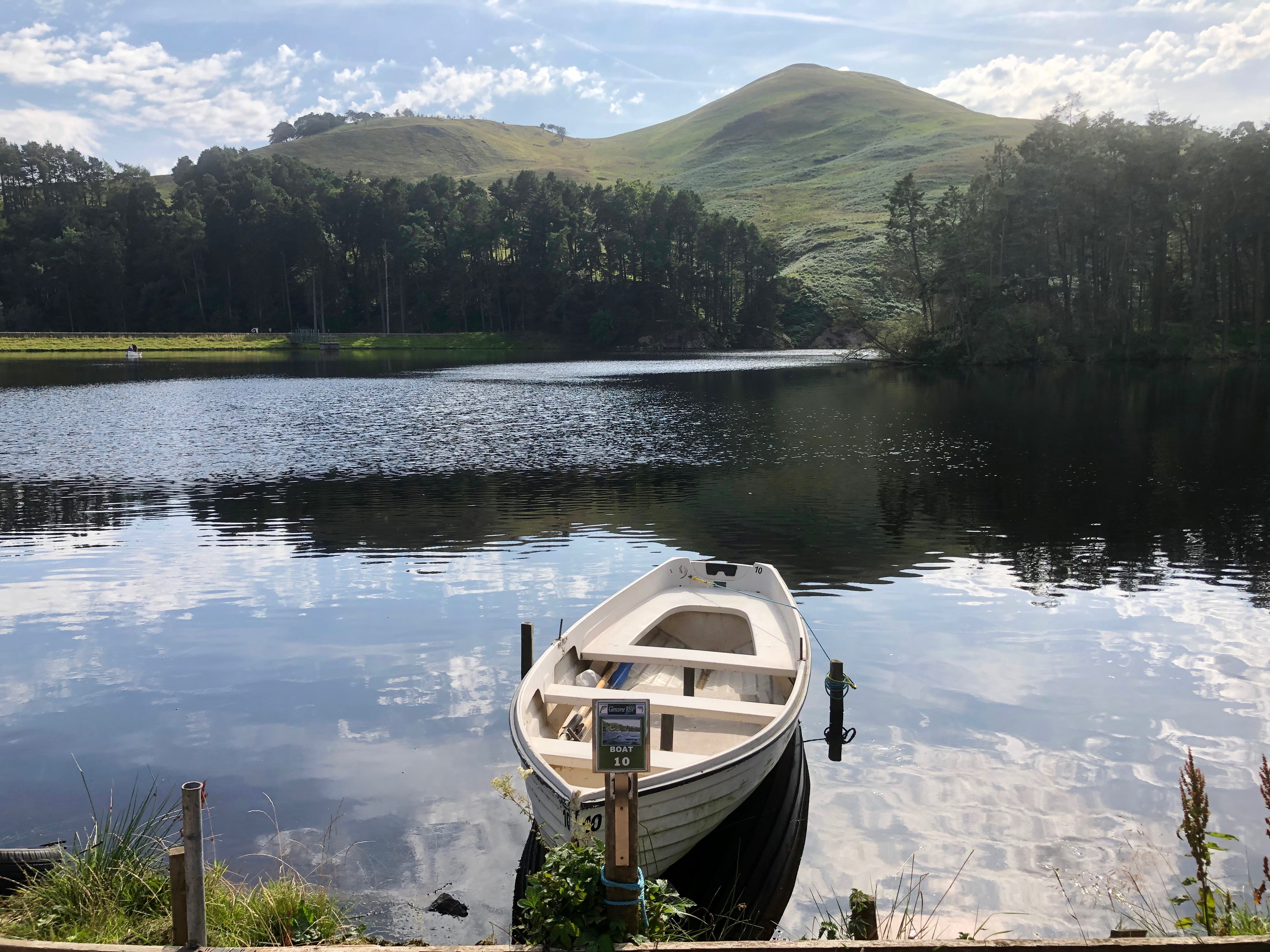 View across Glencorse Reservoir to Turnhouse Hill in the Pentland Hills, with boat for fly fishing moored at the landing stage in the foreground